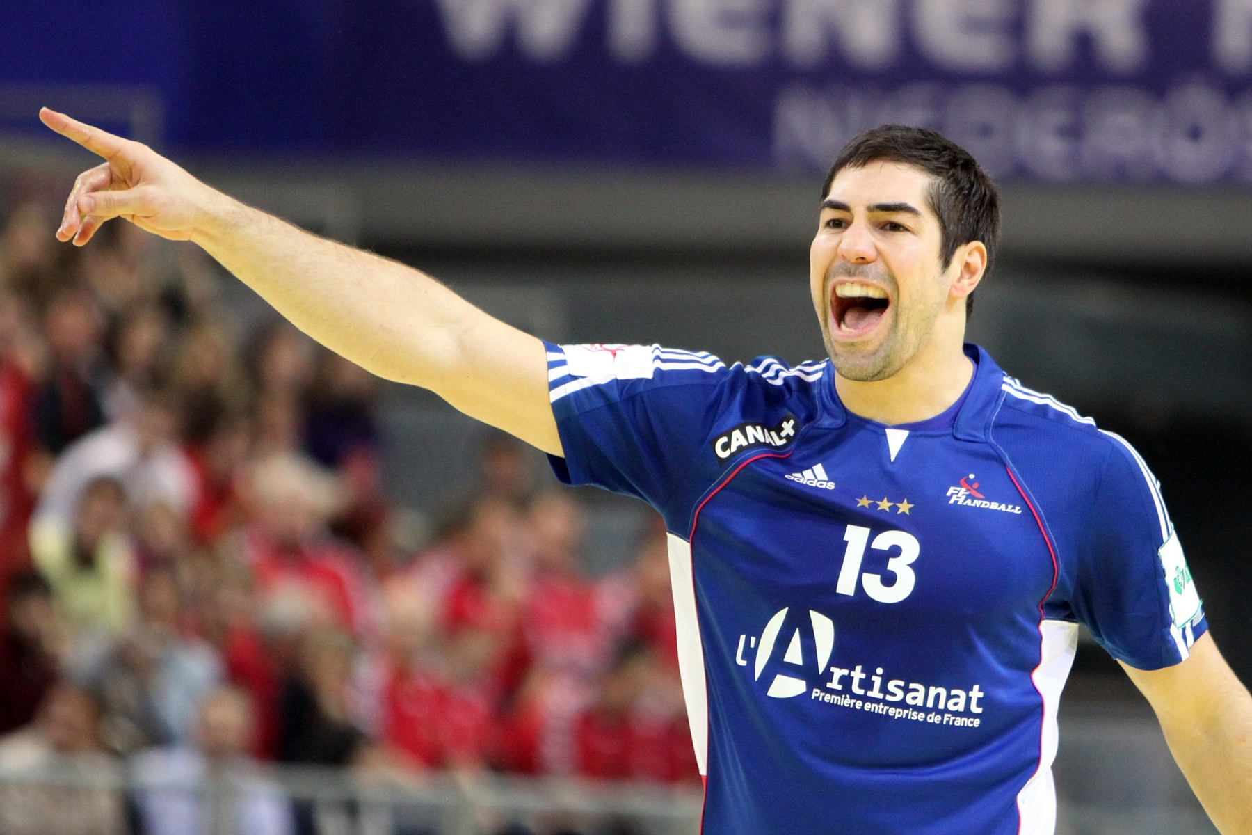 Nikola Karabatić (Montpellier HB), France national handball team